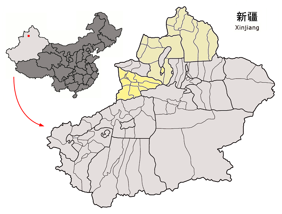 Location of Ili Prefecture (yellow: subdivisions under direct administration of Ili Prefecture, ecru: subdivisions under administration of Tacheng and Altay Prefectures) within Xinjiang autonomous region of China Map drawn in september 2007 using various sources, mainly : Xinjiang Uygur autonomous region administrative regions GIS data: 1:1M, County level, 1990 Xinjiang Counties map from